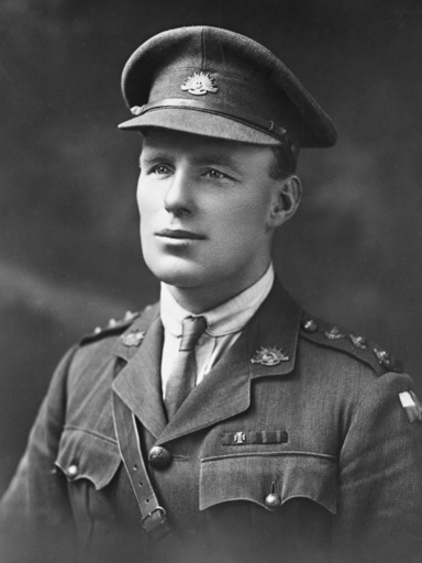 Studio portrait of Captain James Earnest Newland VC, an Australian recipient of the Victoria Cross during the First World War.